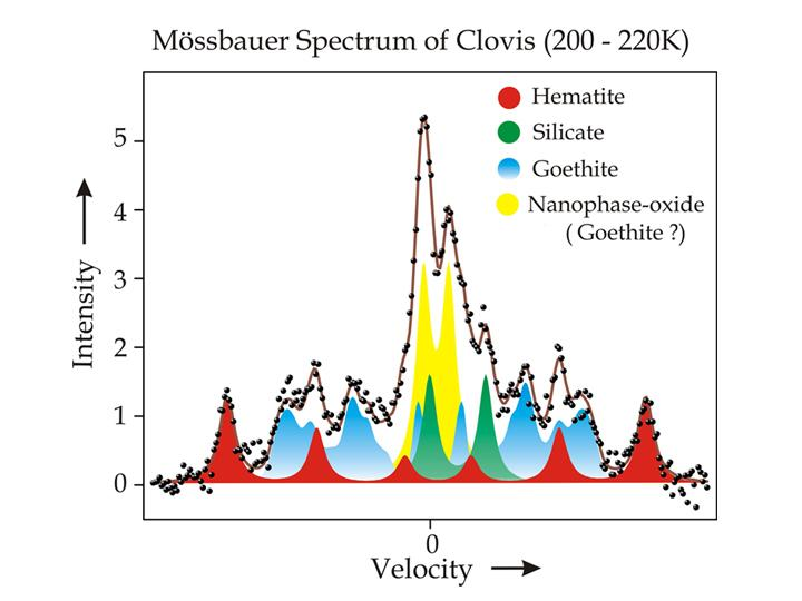 This spectrum, taken by the Mars Exploration Rover Spirit's Moessbauer spectrometer, shows the presence of an iron-bearing mineral called goethite in a rock called "Clovis" in the "Columbia Hills" of Mars. Goethite contains water in the form of hydroxyl as a part of its structure. By identifying this mineral, the examination of Clovis produced strong evidence for past water activity in the area that Spirit is exploring.